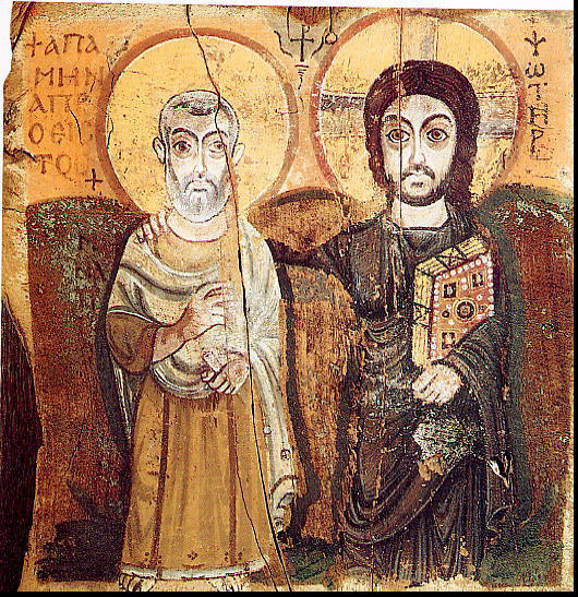 Christ and Saint Mina. 6th-century icon from Bawit, Egypt, now in the Louvre